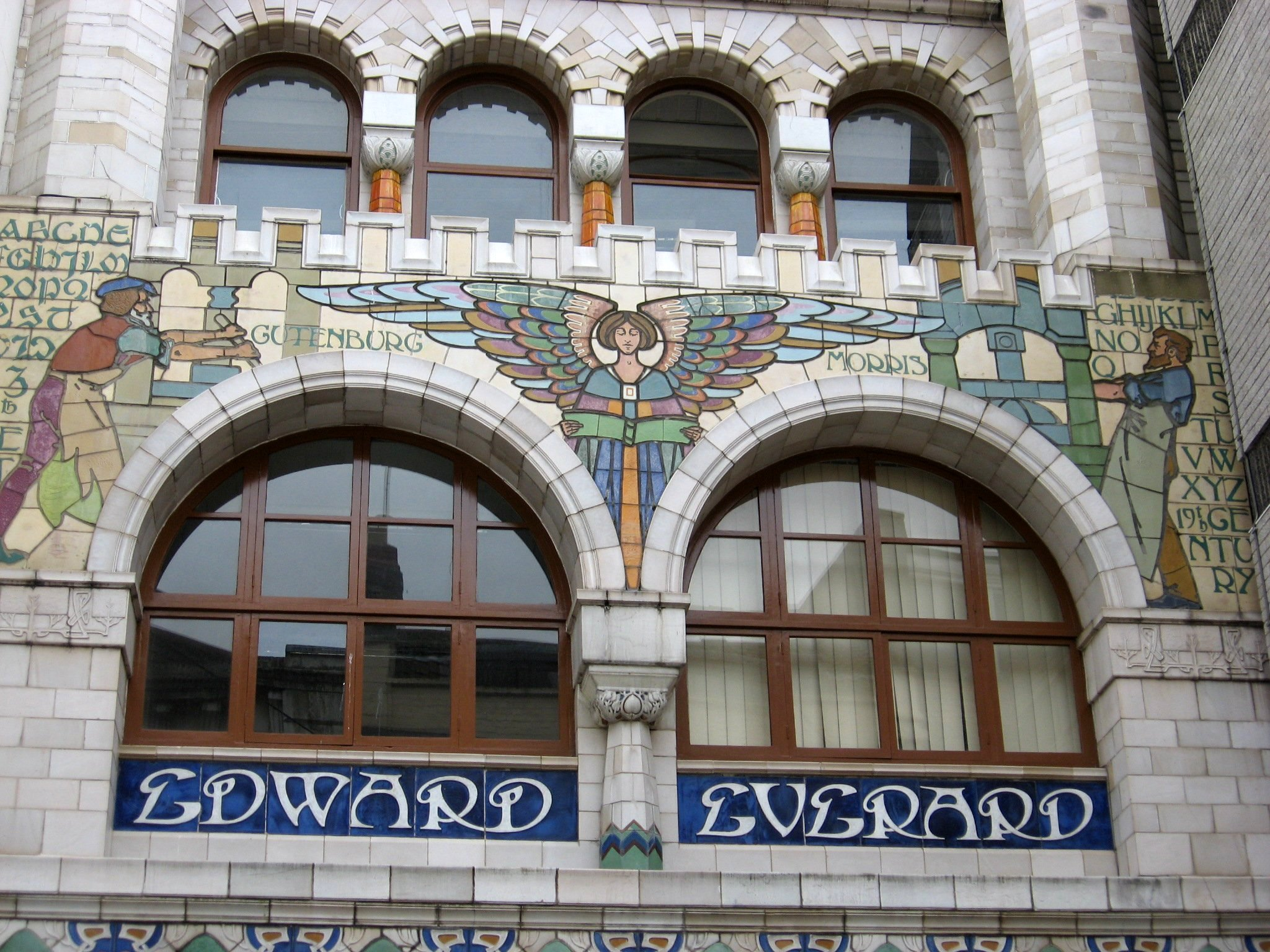 Art Nouveau facade of the former Edward Everard building in Bristol, England (Detail)